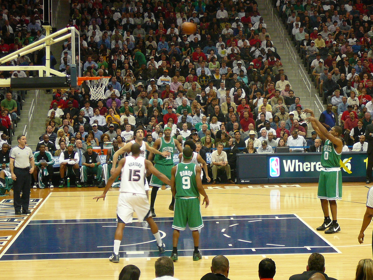 User:Chrisjnelson agreed to license this image of Leon_Powe_Free_Throw.jpg under a free attribution license. should be in the picture caption.